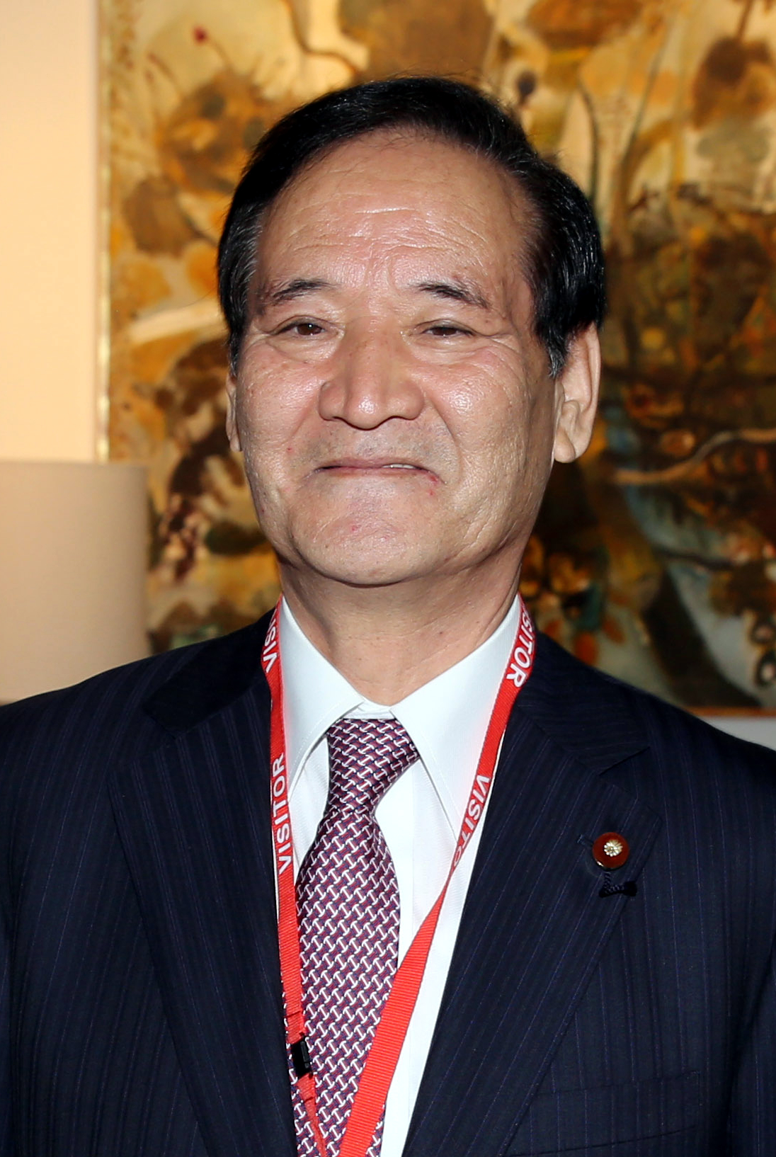 Kōya Nishikawa, Member of the House of Representatives, met Tony Abbott, Prime Minister, and Andrew Robb, Minister for Trade and Investment, on March 17, 2014.